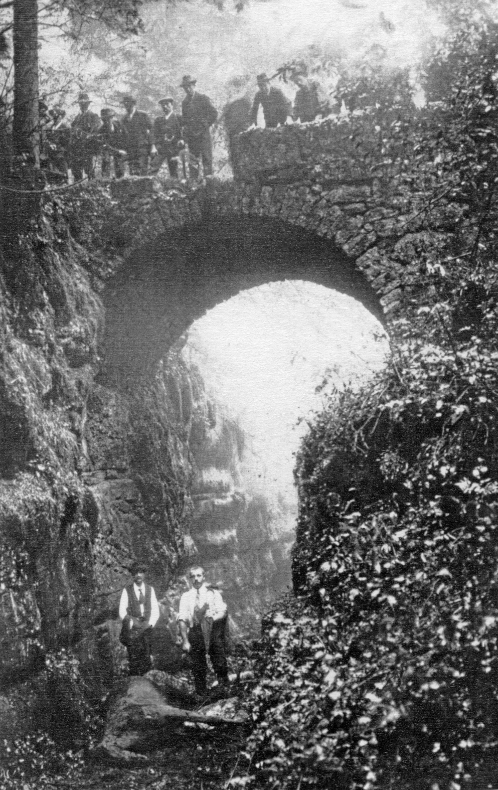 Photo of the Anabaptist bridge crossing the Combe du Bez above Corgémont, 1918; Berne, Switzerland. The only existing document (photography) of the intact bridge. Taken on the occasion of the crash of horseman Christian Tschanz (right) with the horse named «Eidgenoss». On the left the horse owner and brother of Christian, August Tschanz. View in flow direction of the stream.